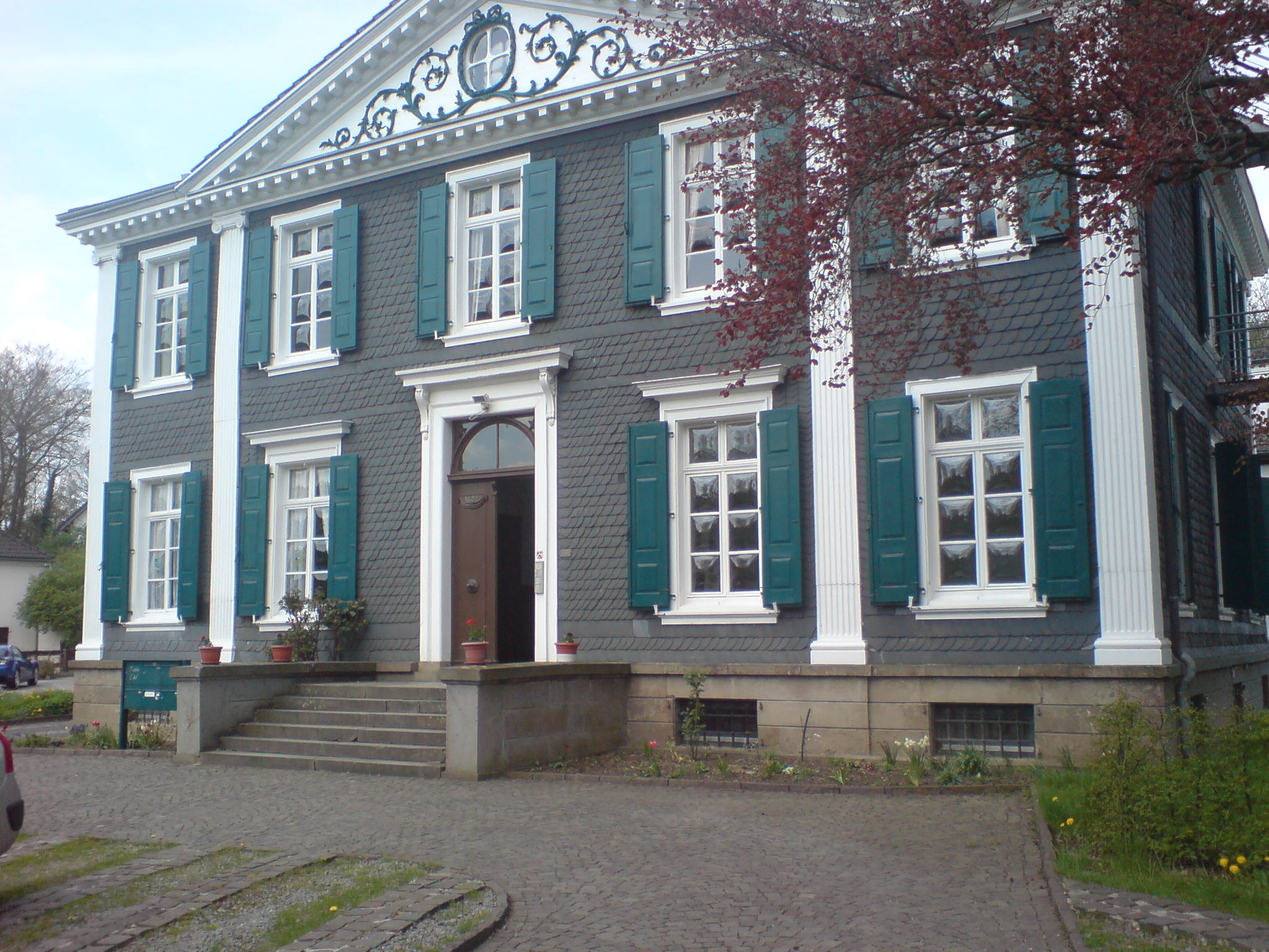 Villa Ohl